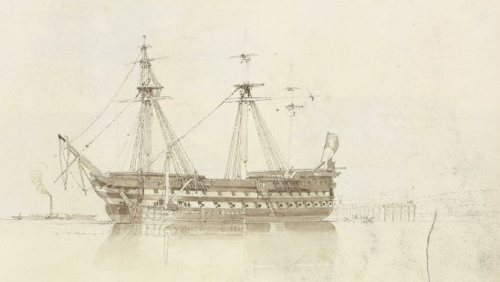 HMS 'Monarch' at Sheerness, December 1850. No. 5 of 36 (PAI0849 - PAI0884). Detail of (Recto) Inscribed top left, 'HMS Monarch / Sheerness, Dec 1850' this was done while Mends was first lieutenant of the 'Trafalgar' at Sheerness. 'Monarch' was a 2nd-rate 84-gun two-decker laid down at Deptford Dockyard but transferred to Chatham in 1825 and launched there in 1832. She is shown here off the Sheerness jetty with what is probably a buoyage tender and/or watering vessel alongside. The steamer under her bows may be a naval picket vessel rather than a civilian passenger craft. The remnamts of a tree on the left is not part of this drawing but overspill from the adjacent page.